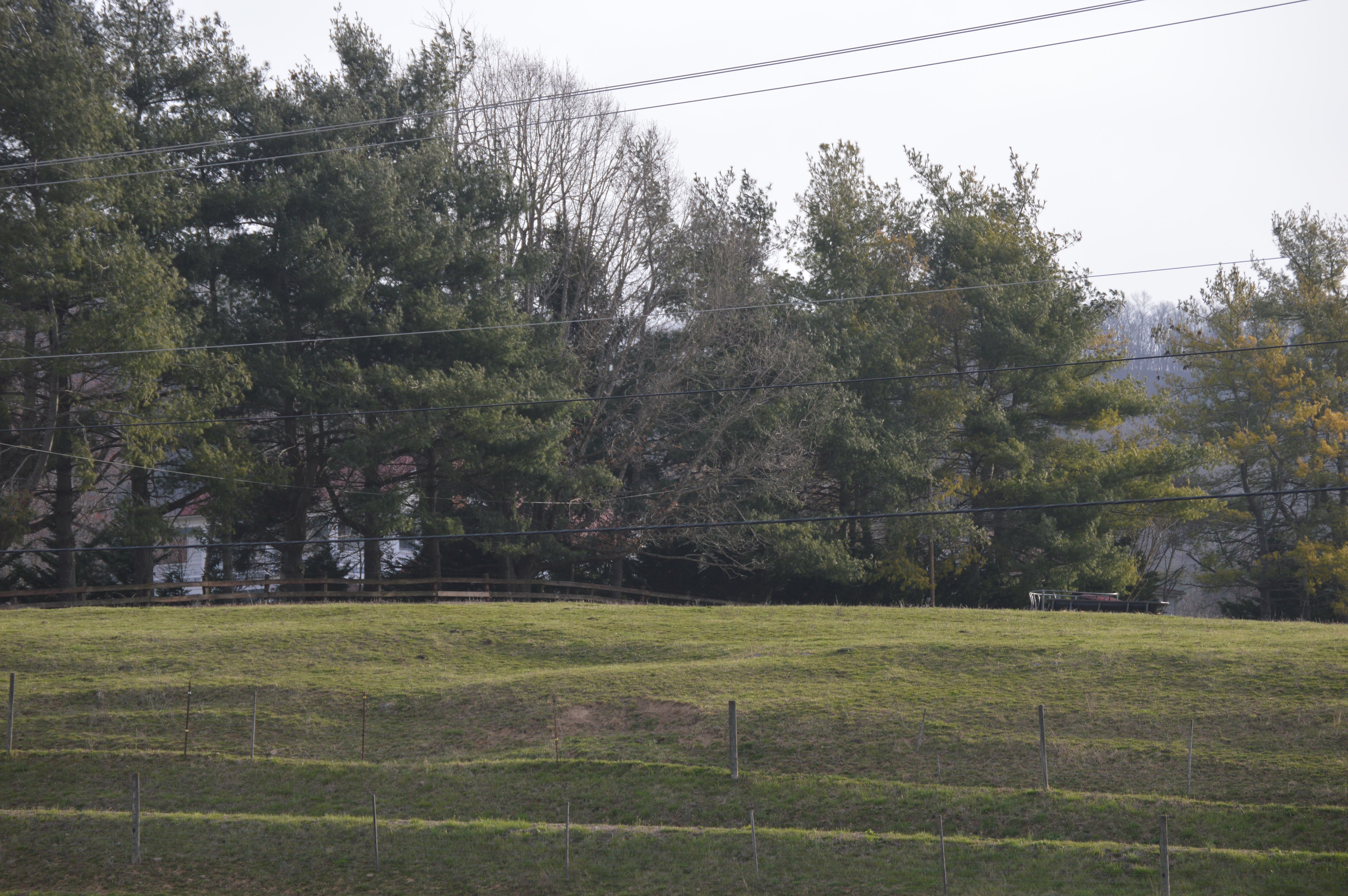 A field and a through-the-trees view of the Madison Farmhouse, located on U.S. Routes 11/460 south of Elliston in Montgomery County, Virginia, United States. The house and surrounding fields are both part of the Madison Farm Historic and Archeological District, a historic district that is listed on the National Register of Historic Places.